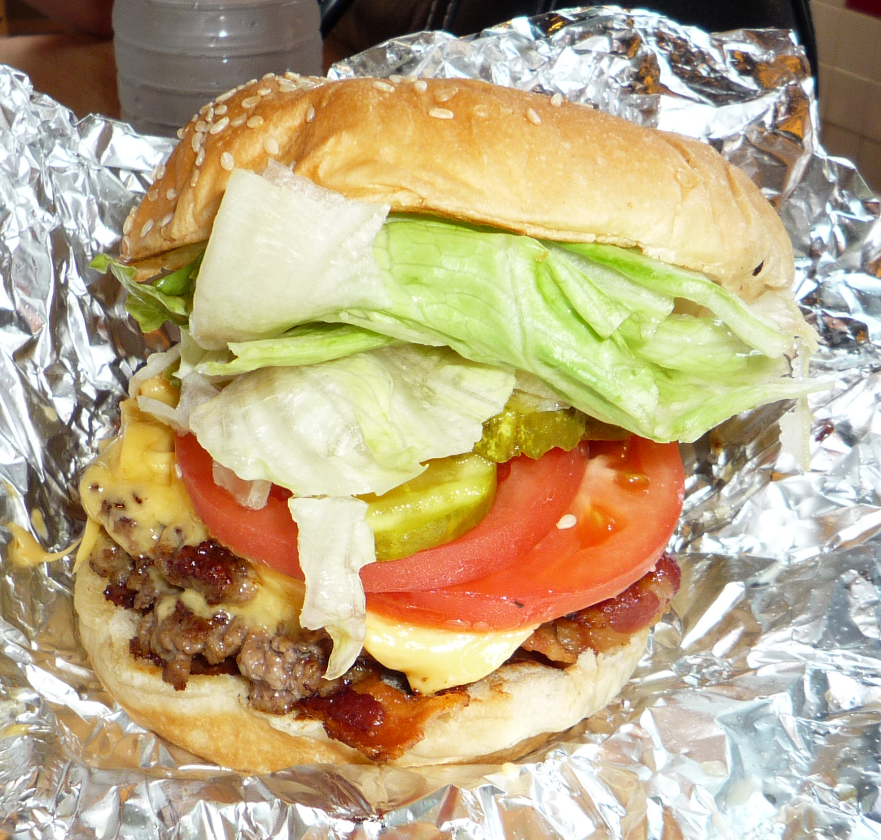 A Five Guys (restaurant) cheeseburger